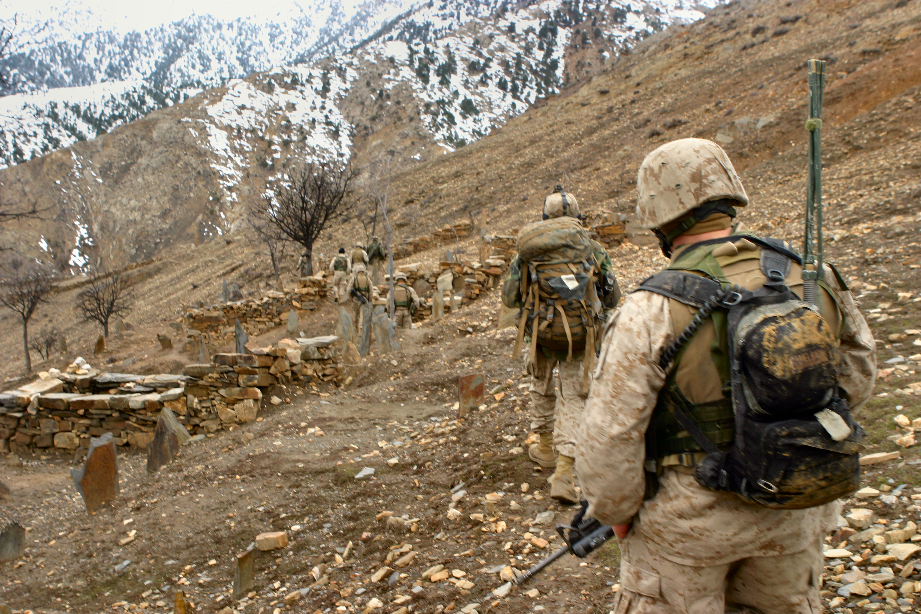 Original Caption: METHAR LAM, Afghanistan (April 6, 2005) – U.S. Marines with Kilo Company, en:3rd Battalion, 3rd Marine Regiment, patrol on the outskirts of a village during operations conducted to capture suspected anti-coalition forces in the vicinity of Methar Lam, Afghanistan recently. The Marines are conducting security and stabilization operations in support of Operation Enduring Freedom. U.S. Marine Corps photo by Cpl. James L. Yarboro. Source